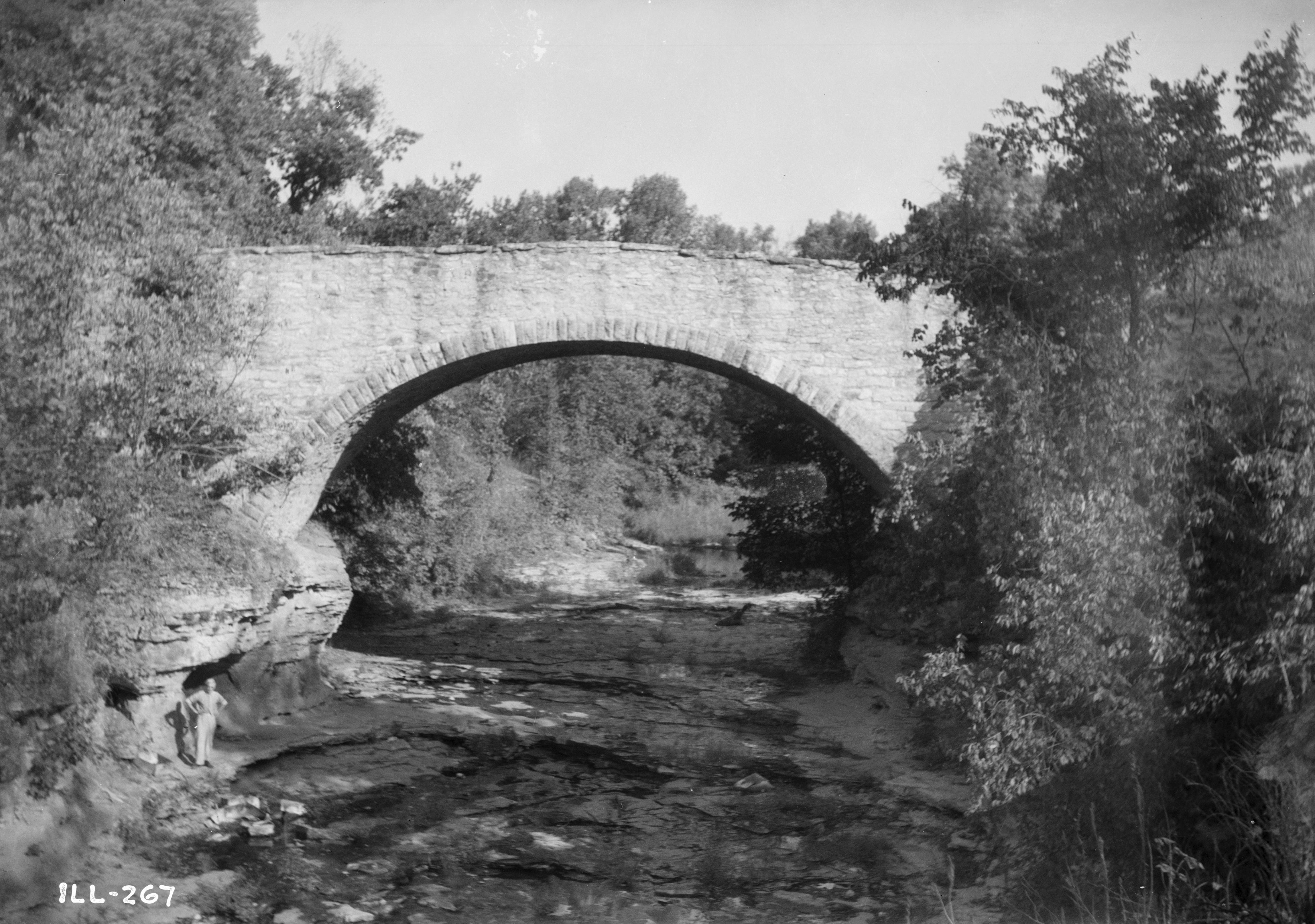 Fall Creek Bridge spanning Fall Creek Gorge, Fall Creek Station, near Payson, Adams County, Illinois. View from South-East.